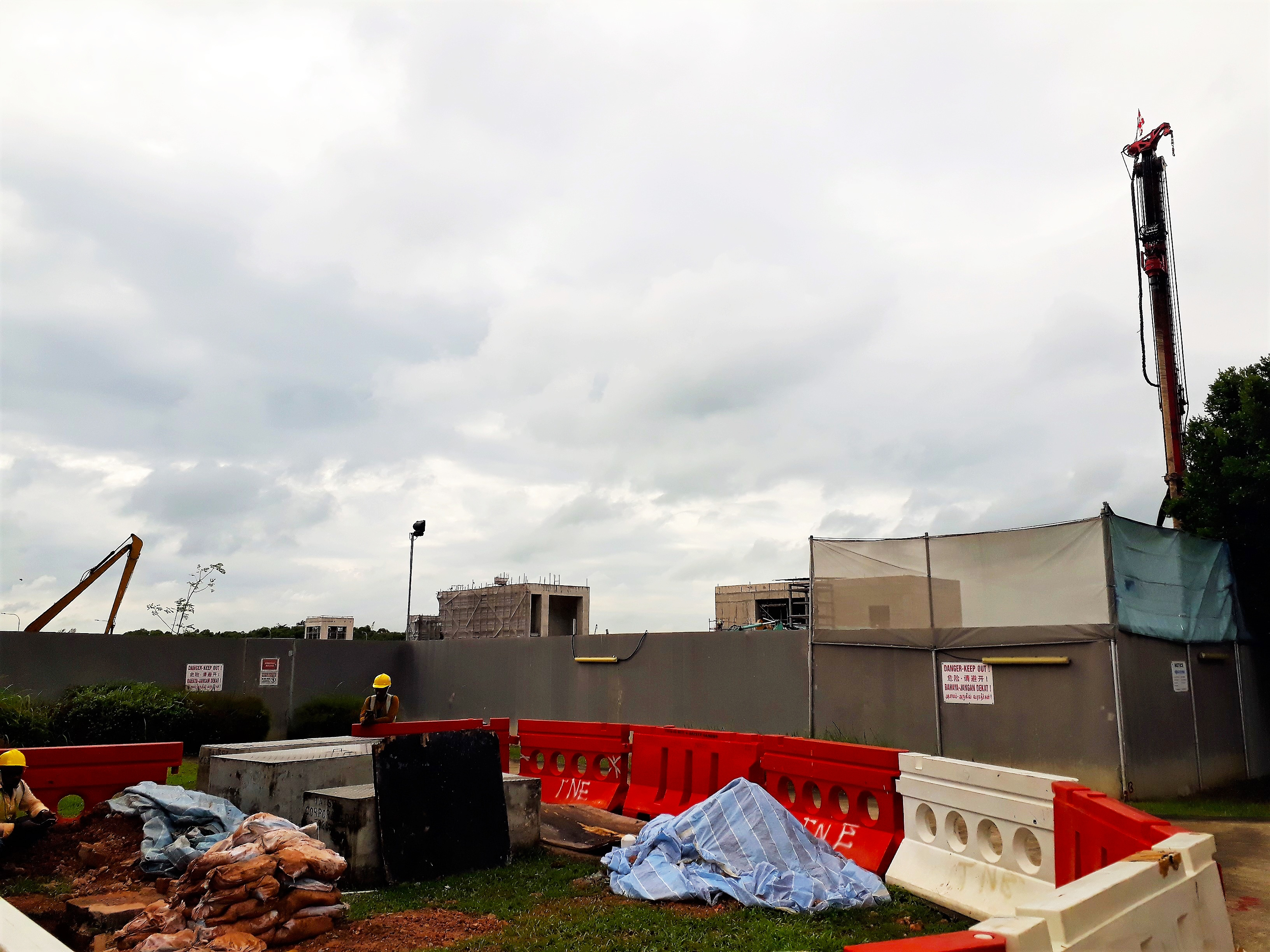 TE20 Marina Bay construction site